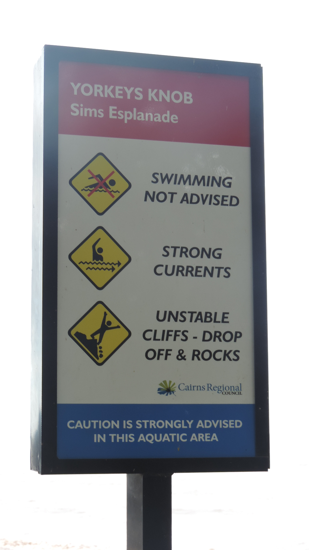 Warning sign at the beach, Yorkeys Knob, 2018